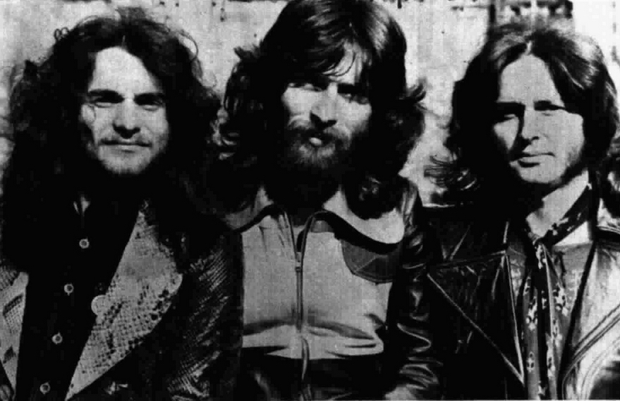 Italian group Le Orme